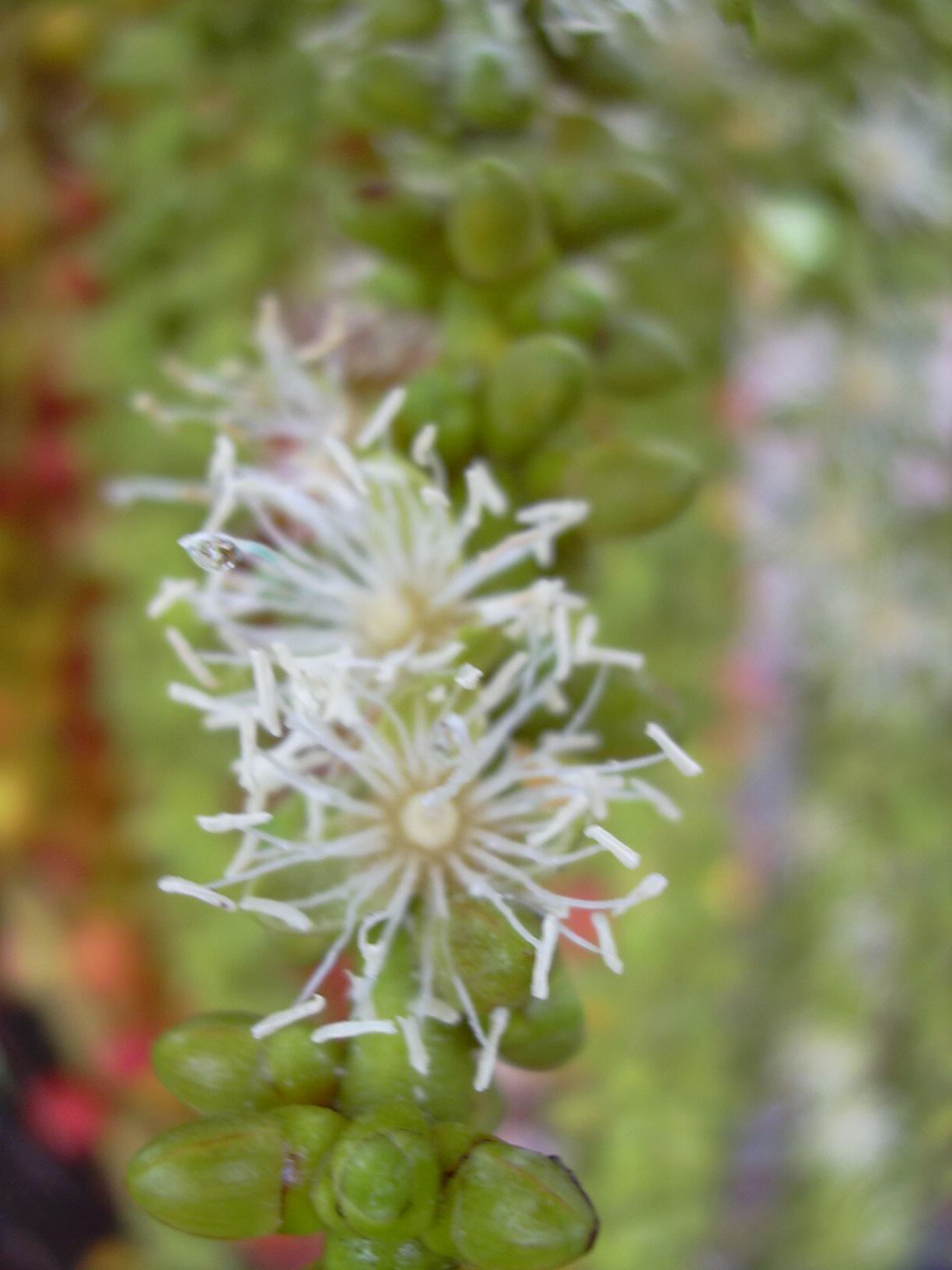 Unknown arecaceae (flower). Location: Hawaii, Hilo